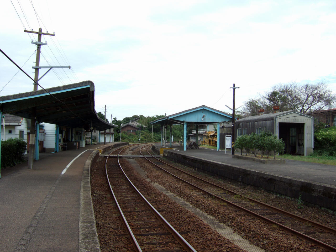 Tabira-Hiradoguchi Station enclosure